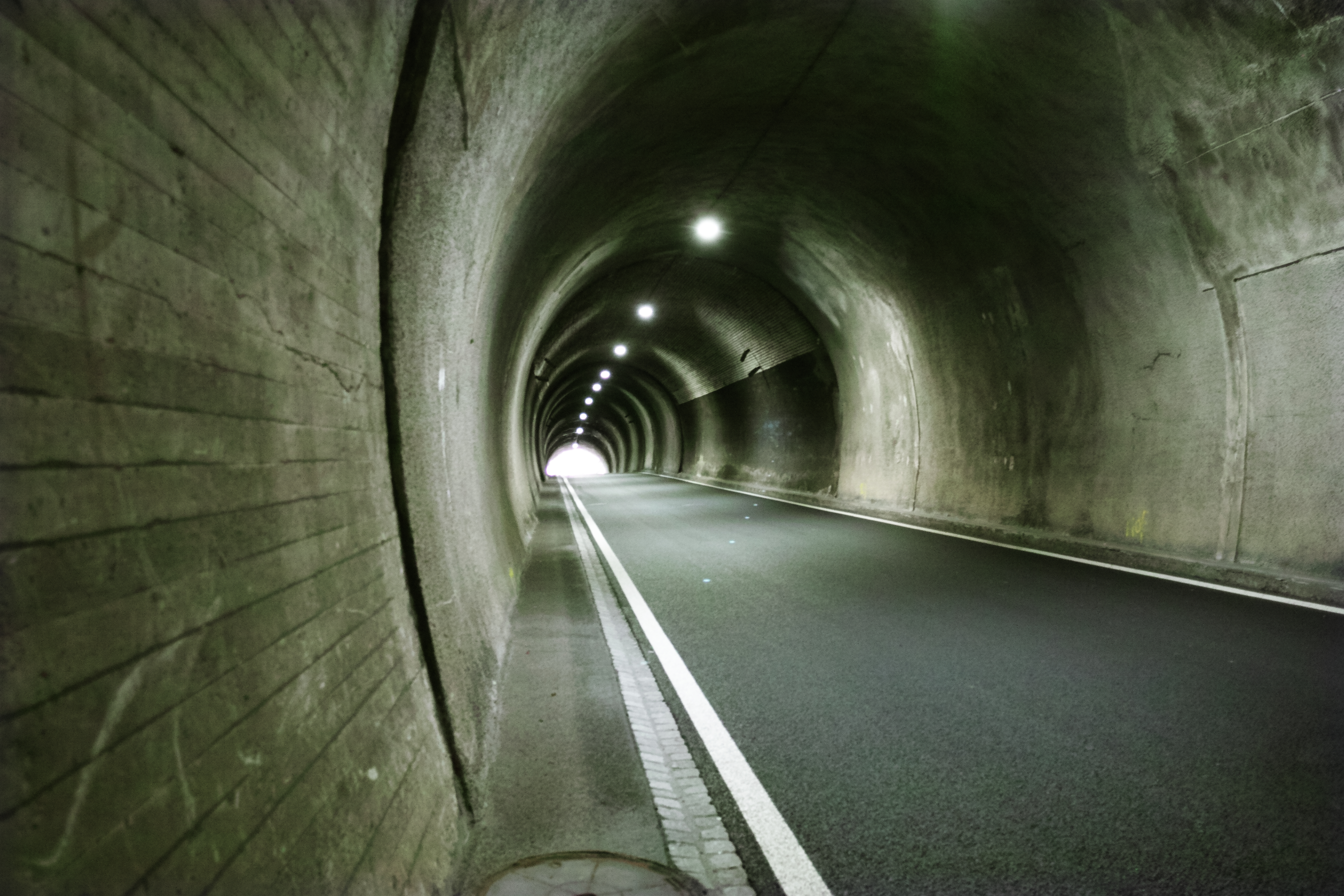 The Zingelen Tunnel of the new Passwang Road was built from 1931 to 1933. Canton of Solothurn, Switzerland. Southwards view from the north side.